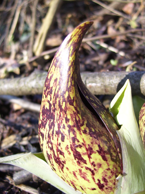 Eastern Skunk Cabbage (Symplocarpus foetidus) in Portage, Michigan.